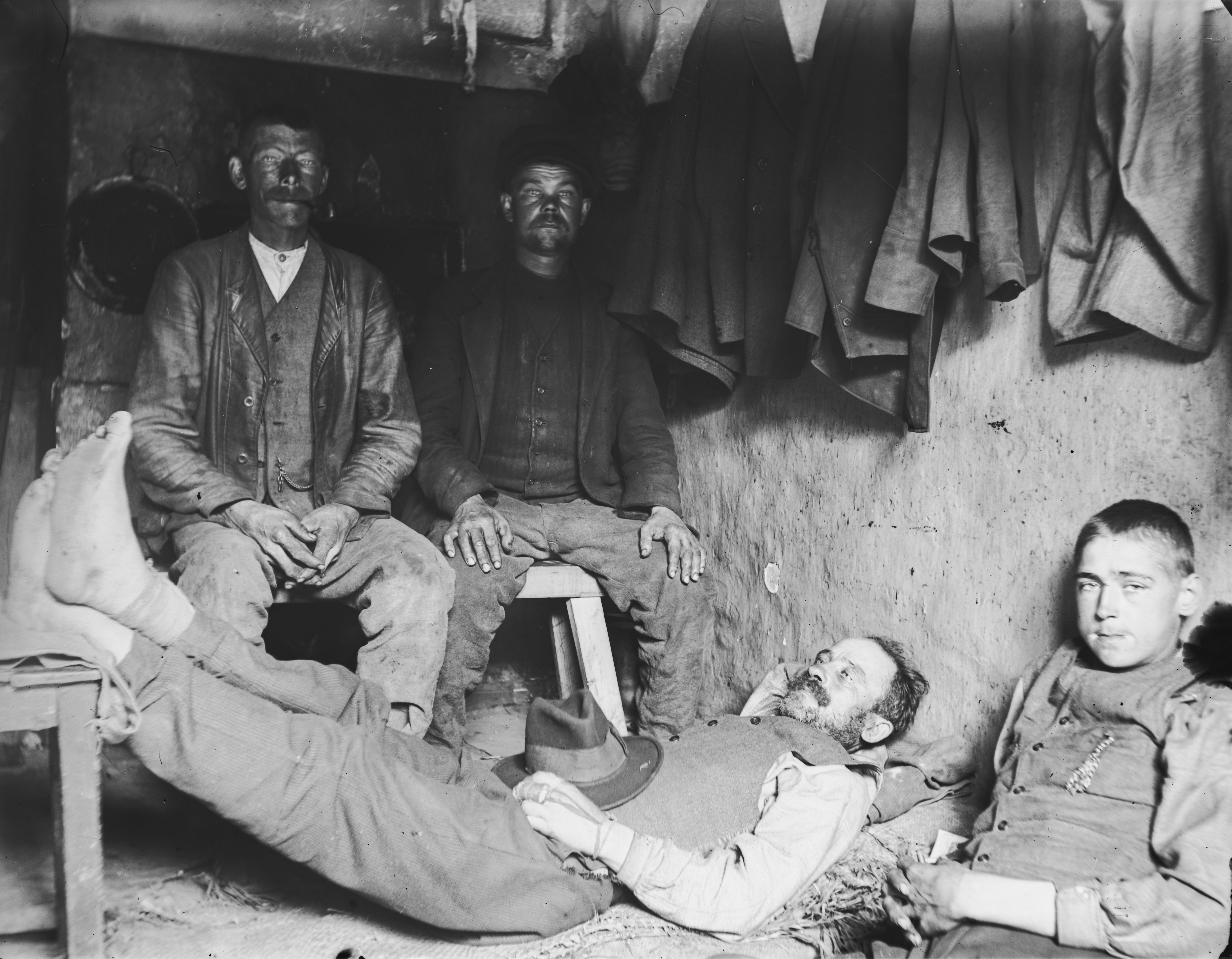 Red Guard prisoners of the 1918 Finnish Civil War in the Susisaari Island in Helsinki.